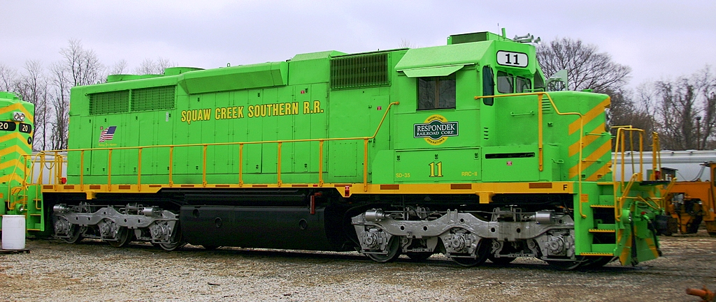 Doesn't matter if its cloudy, these almost glow in the dark. Squaw Creek Southern R.R./Respondek Railroad Corp #11 EMD SD38-2